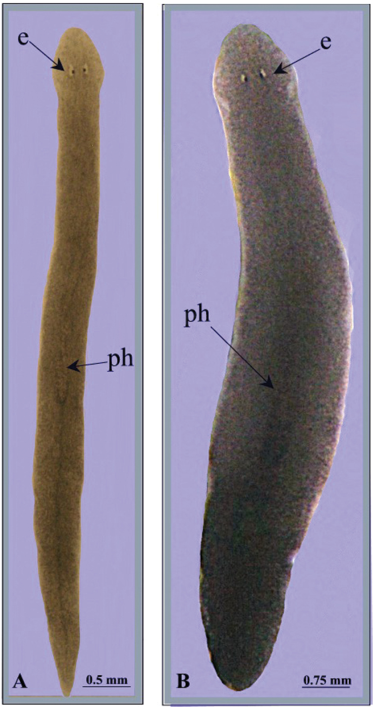 Dugesia bifida. Habitus of living specimens, A fissiparous individual B ex-fissiparous individual.